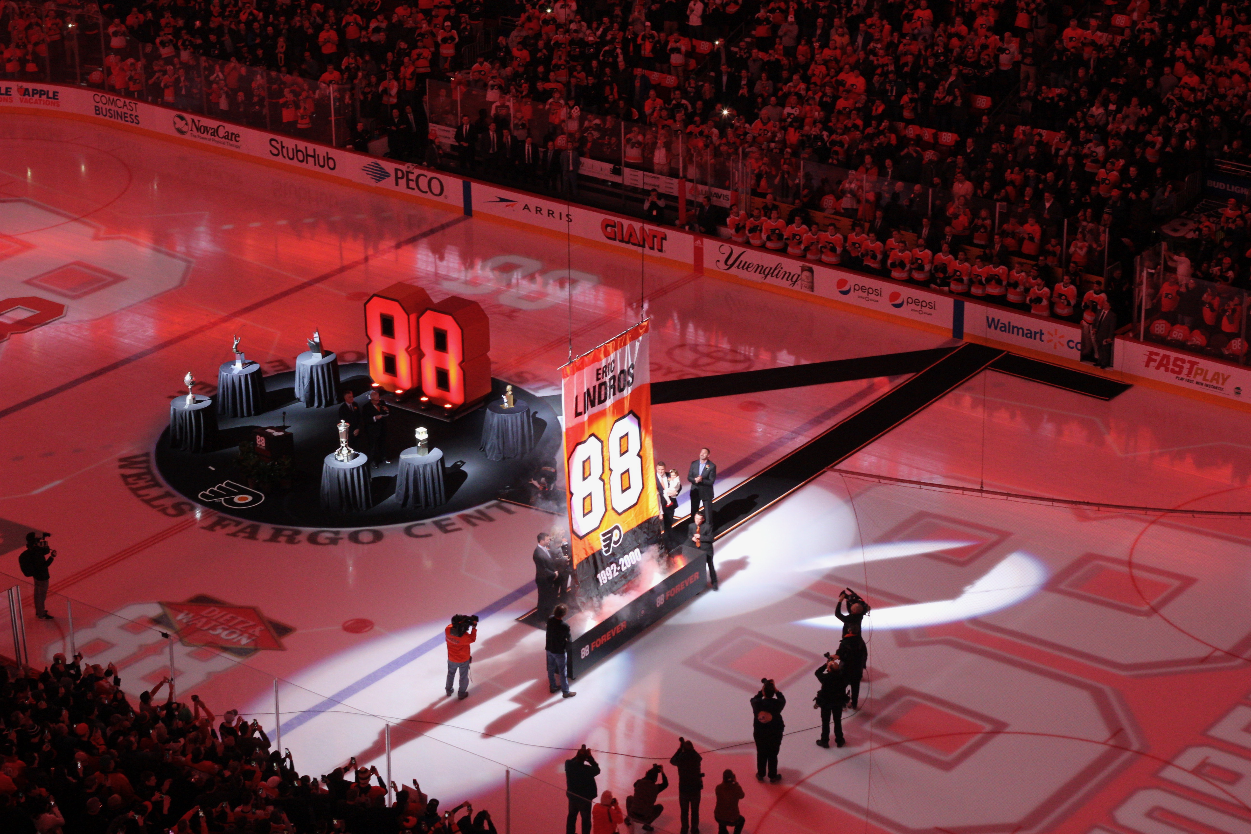 Flyers Eric Lindros Ceremony